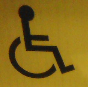 The International Symbol of Disability in May 2015.